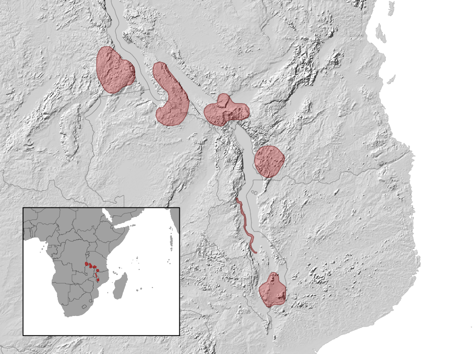 geographic distribution of Melanoseps ater